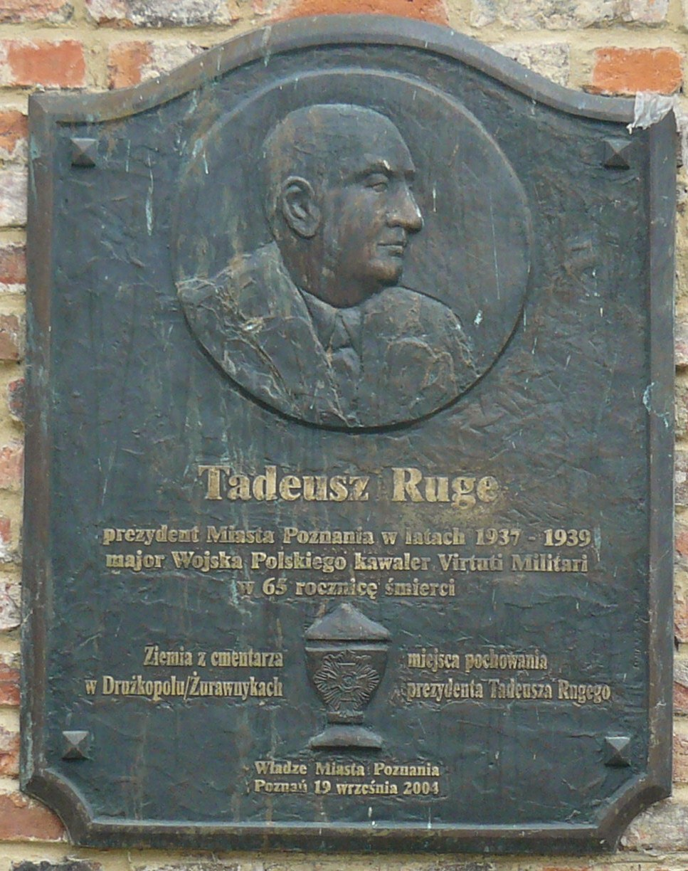 Tadeusz Ruge Plaque - Poznan.